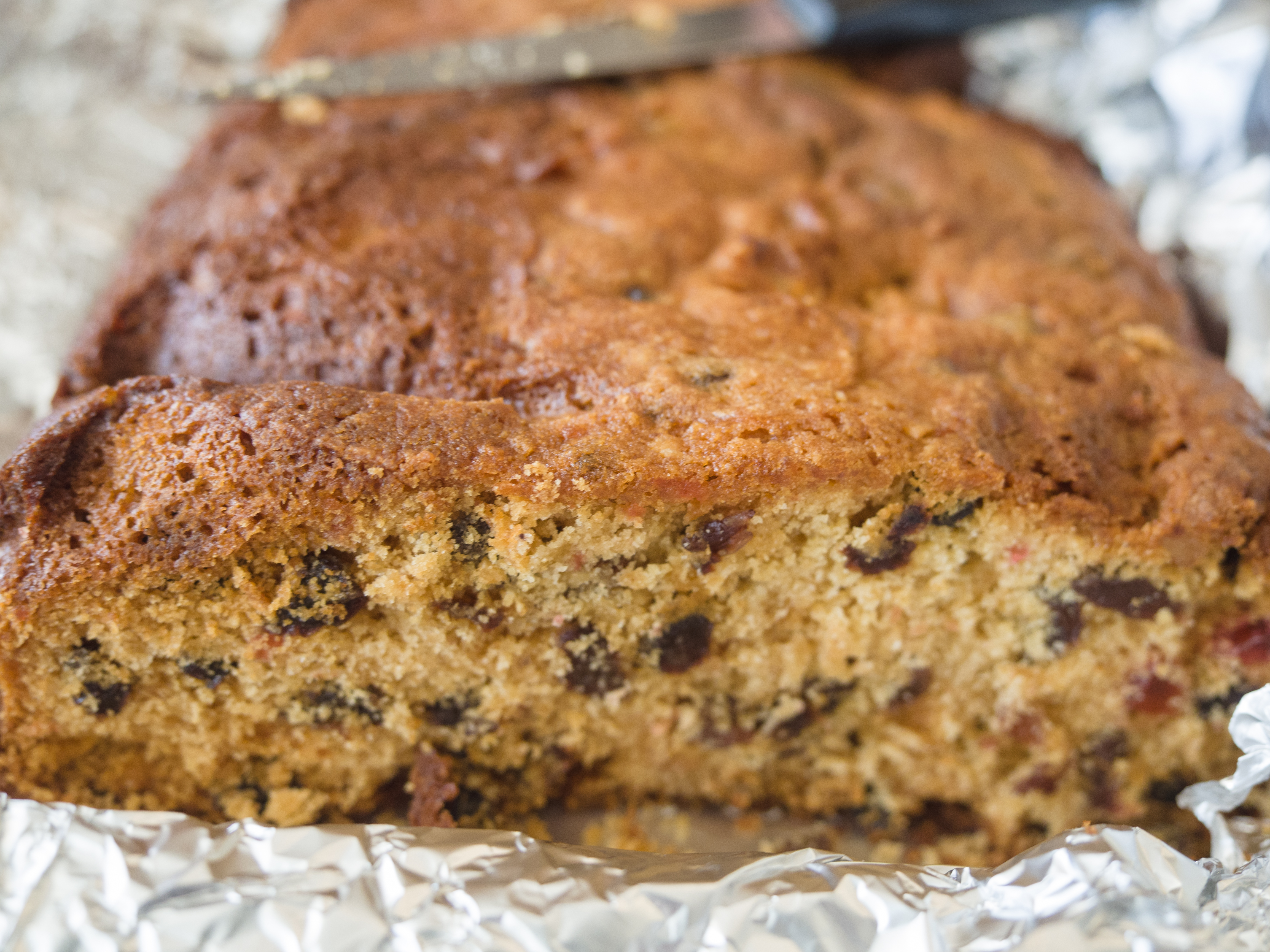 To my grandmother's own recipe